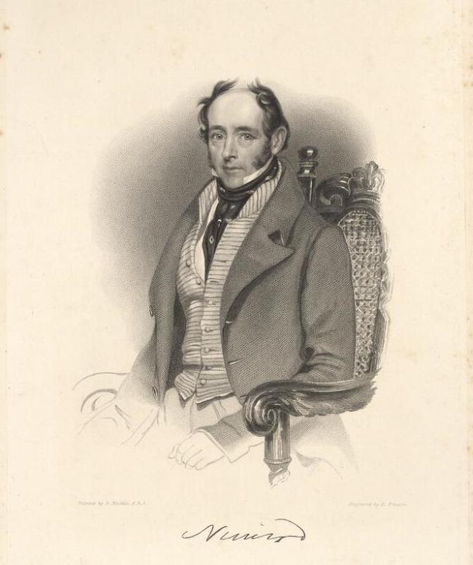 A portrait from the Welsh Portrait Collection at the National Library of Wales. Depicted person: Charles James Apperley – Welsh sportsman and writer